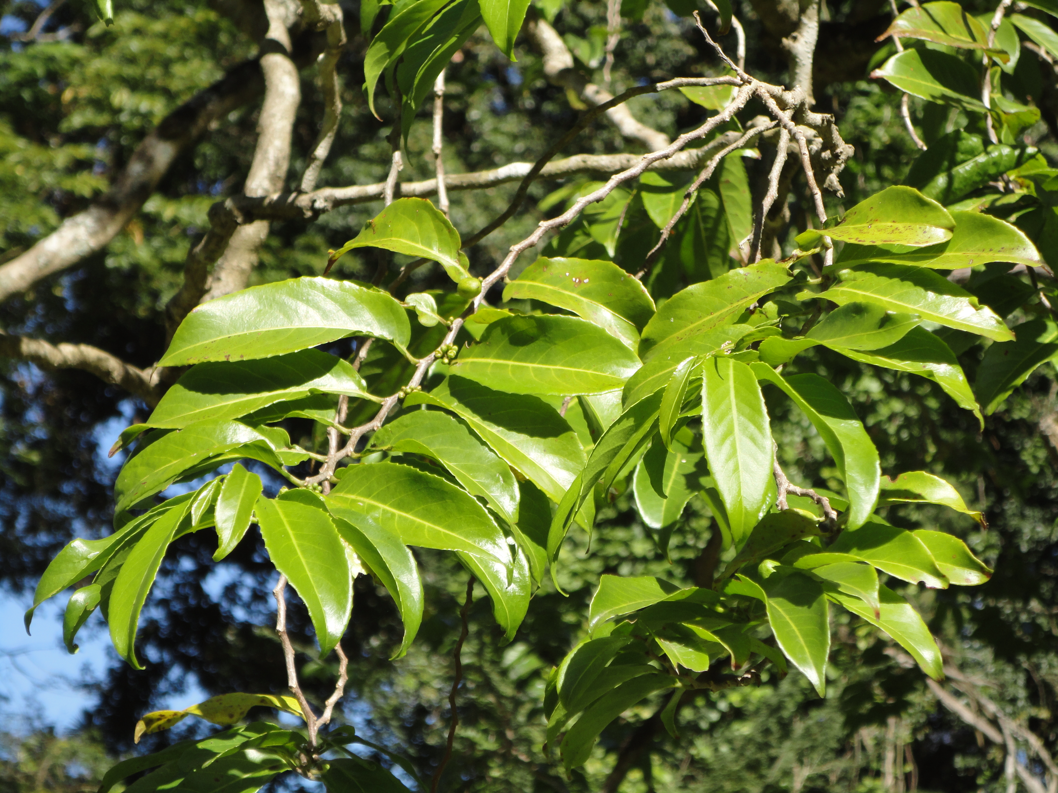 Foliage of the Sword-leaf, in the KwaZulu-Natal National Botancal Garden, Pietermaritzburg. Green fruit and small flower clusters visible. Alternating leaf arrangement striking. IsiZulu: umGunguluzane, umJuluka